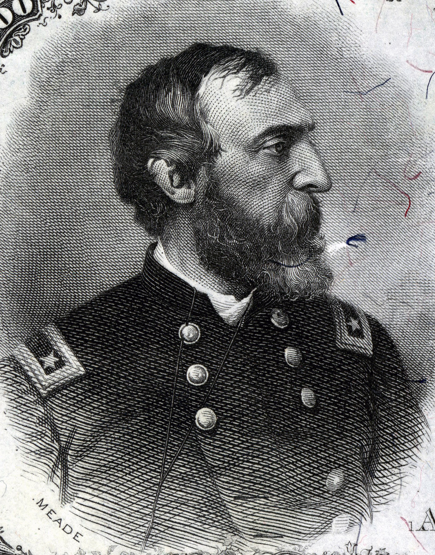 Engraved portrait from United States Currency